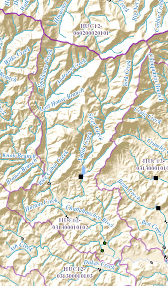 HUC 031300010102 - Smith Creek-Chattahoochee River. Smith Creek rund north to south along the eastern border of the sub-watershed, and joins the Chattahoochee River just south of Lake Unicoi.